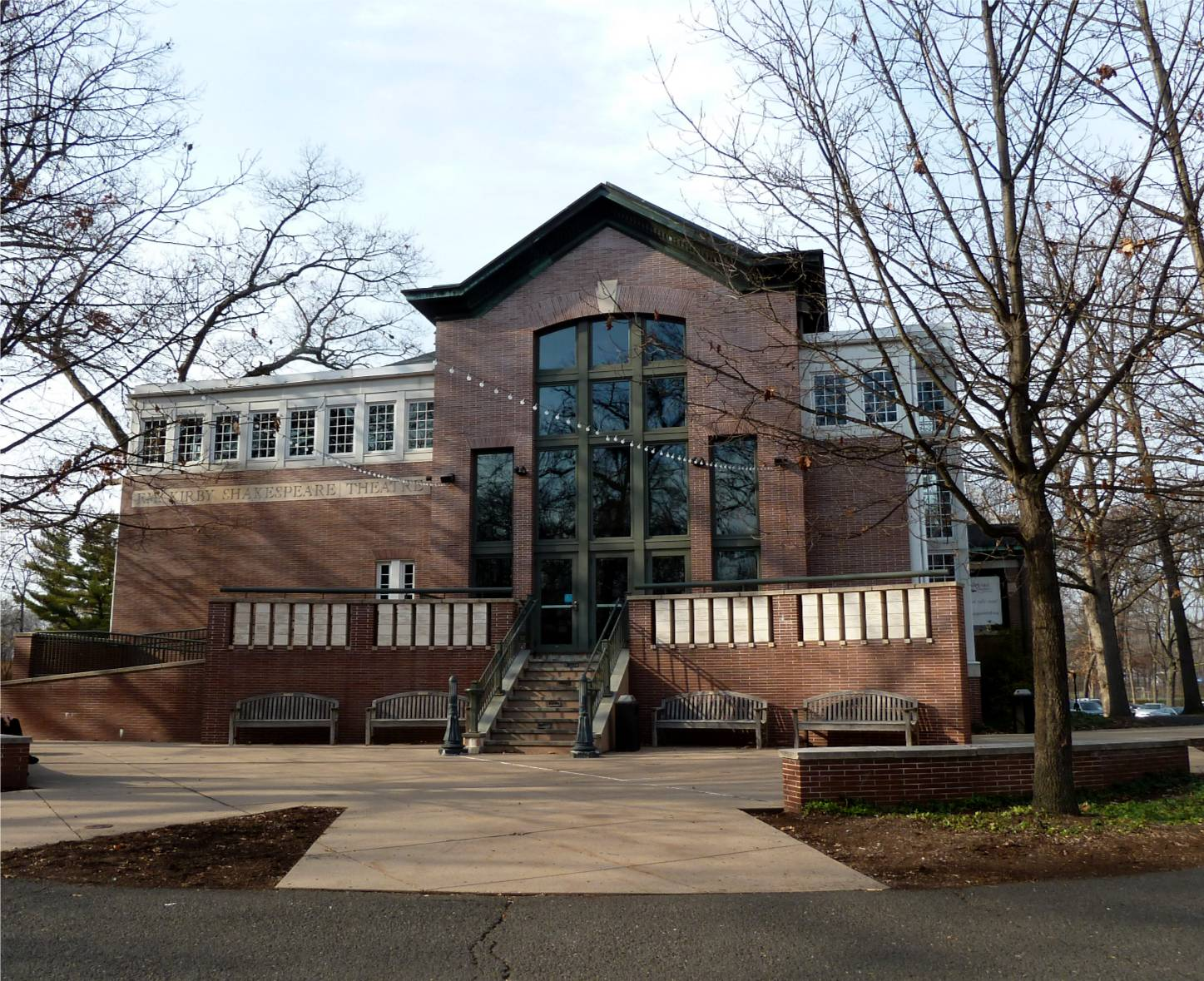 The F. M. Kirby Shakespeare Theatre on the campus of Drew University in Madison, New Jersey, USA.